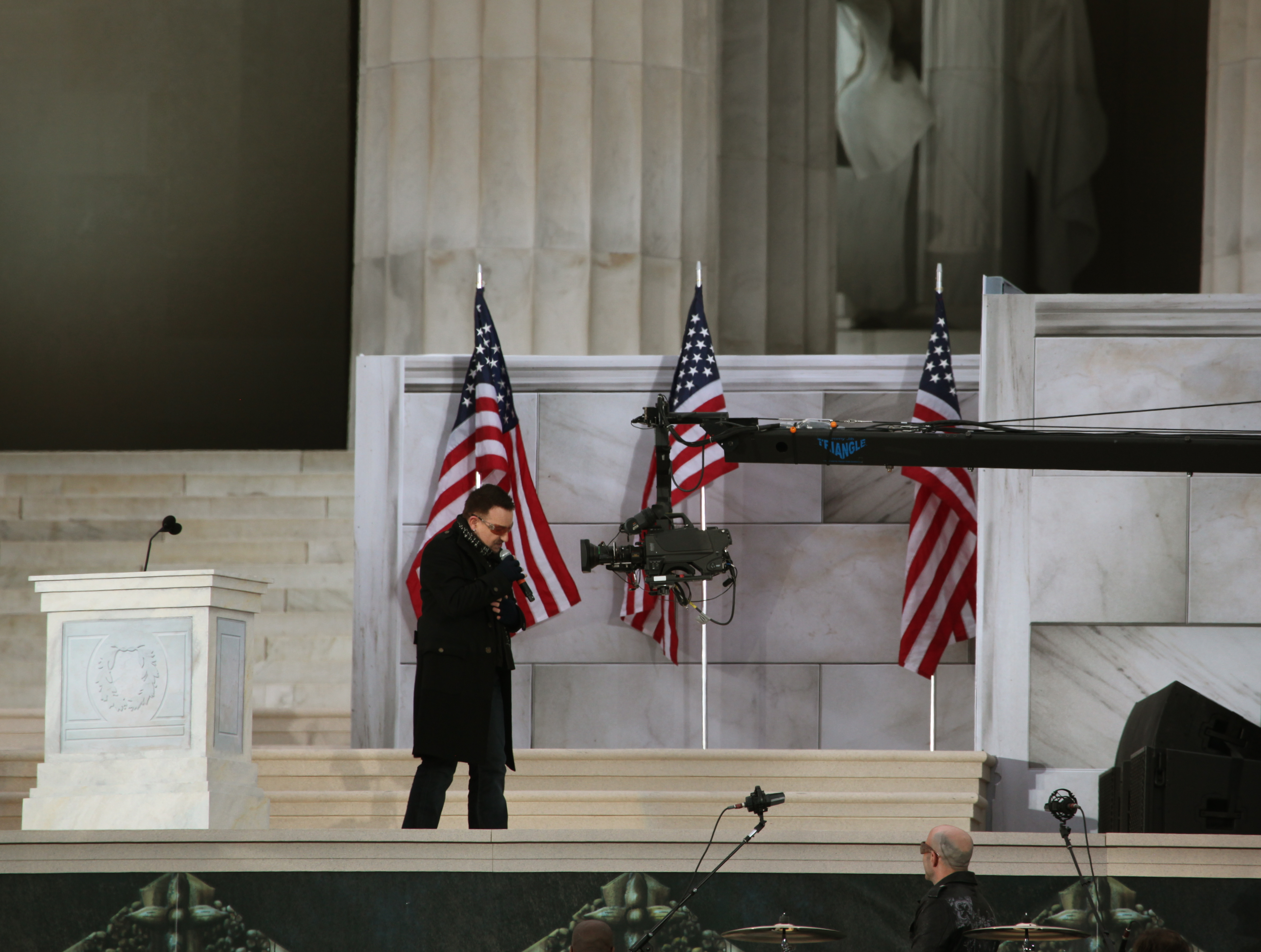 Bono addressing the camera during U2's performance of Pride (In the Name of Love) during the We Are One concert at the Lincoln Memorial, held two days before the 2009 U.S. presidential inauguration.